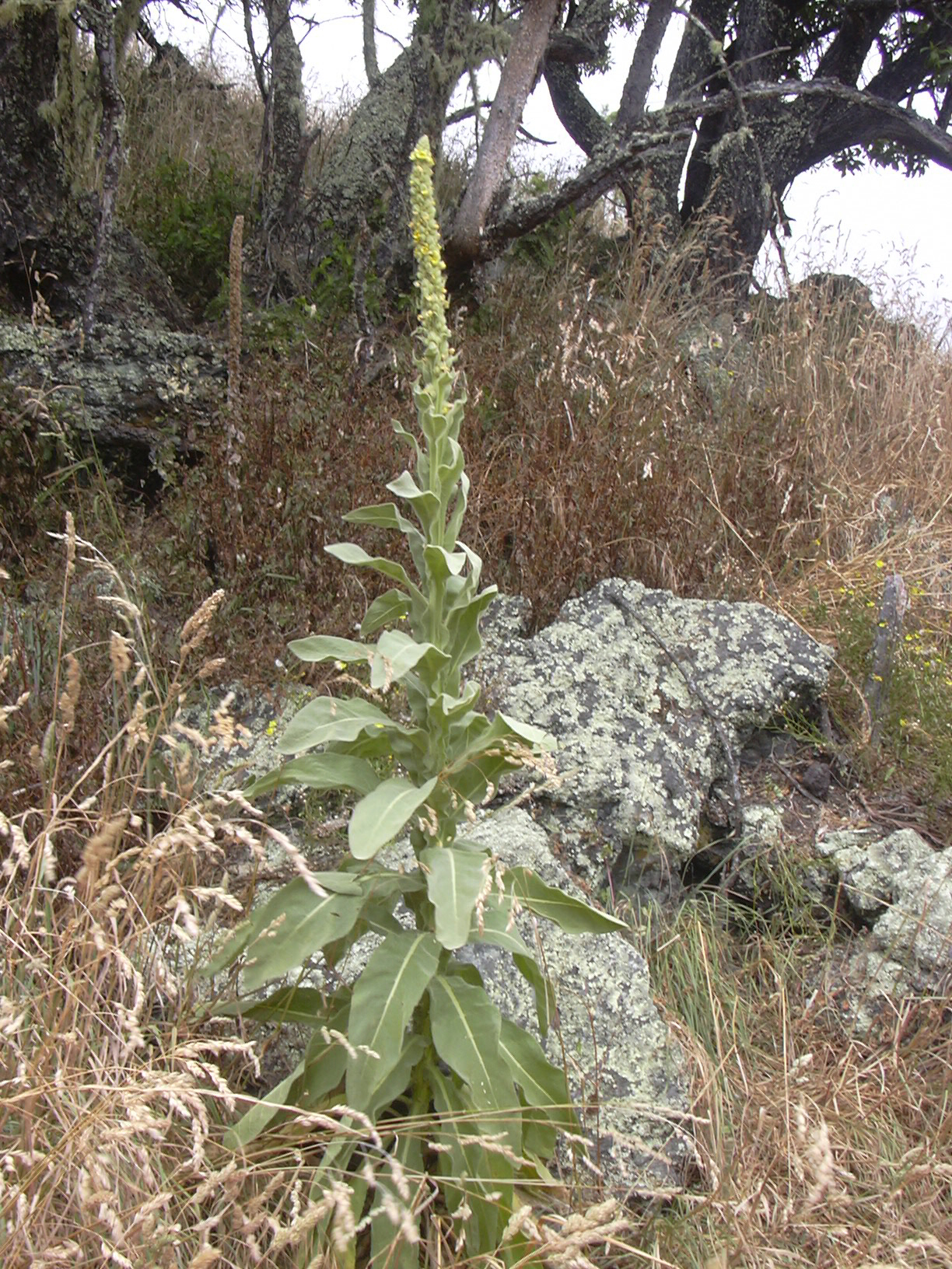 Verbascum thapsus (habit). Location: Hawaii, Puu Mali